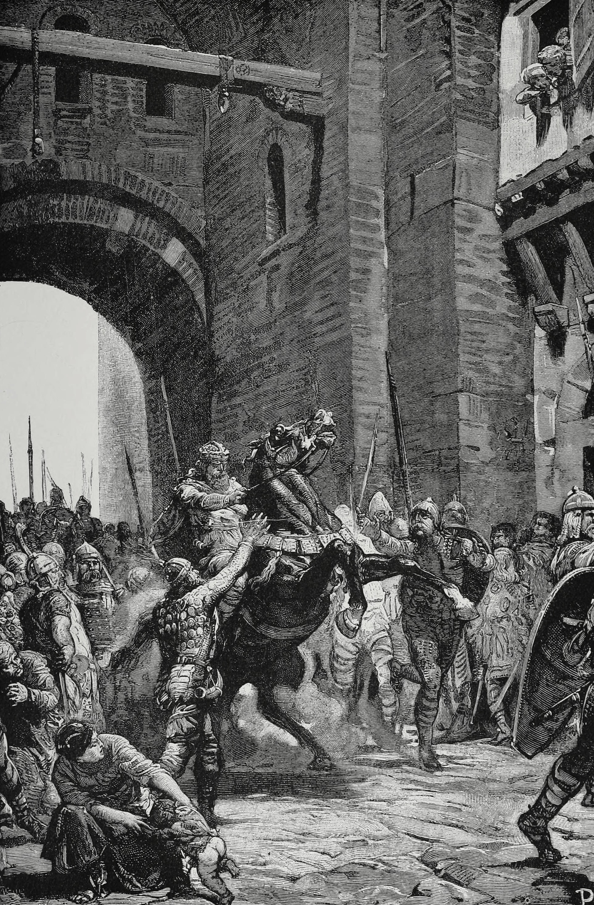 Alboin's triumphal entry in the Roman city of Ticinum (Pavia) after the fall of the town to the Lombards in 572.